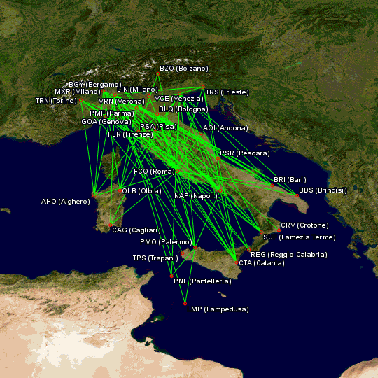 Alitalia Domestic Network, updated to August 2010